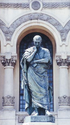 Ovidius